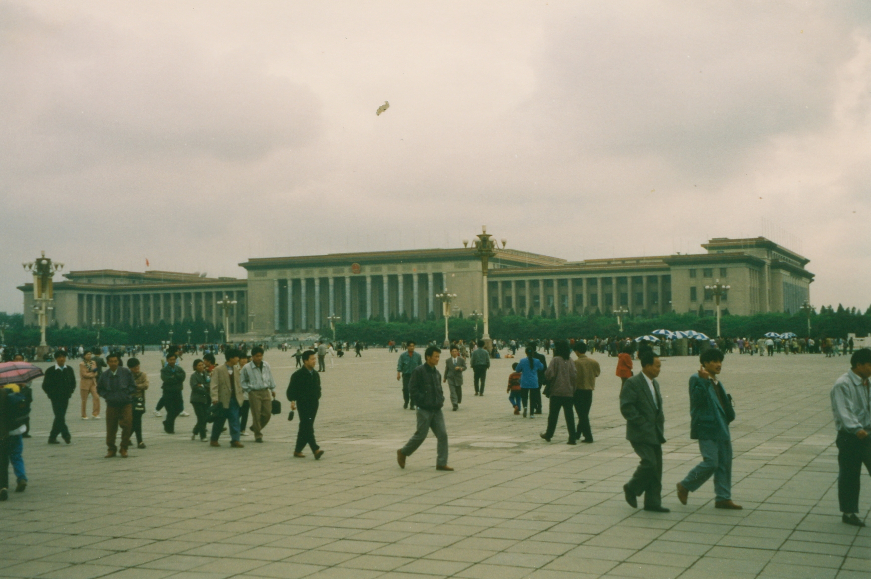 Tiananmen Square is a large city square in the center of Beijing, China, named after the Tiananmen Gate (Gate of Heavenly Peace) located to its North, separating it from the Forbidden City. Tiananmen Square is the third largest city square in the world (440,000 m² - 880m by 500m). It has great cultural significance as it was the site of several important events in Chinese history. Outside China, the square is best known in recent memory as the focal point of the Tiananmen Square protests of 1989, a pro-democracy movement which ended on 4 June 1989 with the declaration of martial law in Beijing by the government and the death of at least hundreds of protesters. The Great Hall of the People is located at the western edge of Tiananmen Square, Beijing, People's Republic of China, and is used for legislative and ceremonial activities by the People's Republic of China and the Communist Party of China. It functions as the People's Republic of China's parliament building. (From Wikipedia